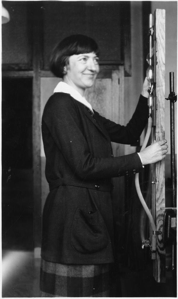 Biochemist Ethel Ronzoni Bishop (1892-1975) taught at Washington University Medical School. After attending Mills College (B.S., 1913) and Columbia University (M.A., 1914), she taught home economics at University of Missouri and University of Minnesota and then in 1918 began graduate study at University of Wisconsin, where she earned Ph.D. in physiology in 1923. At Wisconsin, she met and married physiologist George Holman Bishop (1889-1973) [cross-reference to SIA Digital No. 2007-0234]. They moved to St. Louis and both joined the Washington University faculty, where she taught biological chemistry and neuropsychiatry until she retired in 1959